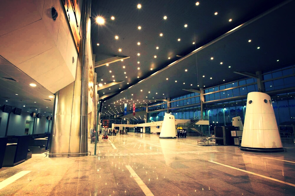 Terminal-2, CCS International Airport